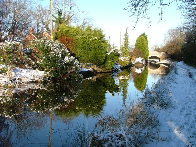 Swanley Bridge up ahead on the Llangollen Canal - winter.